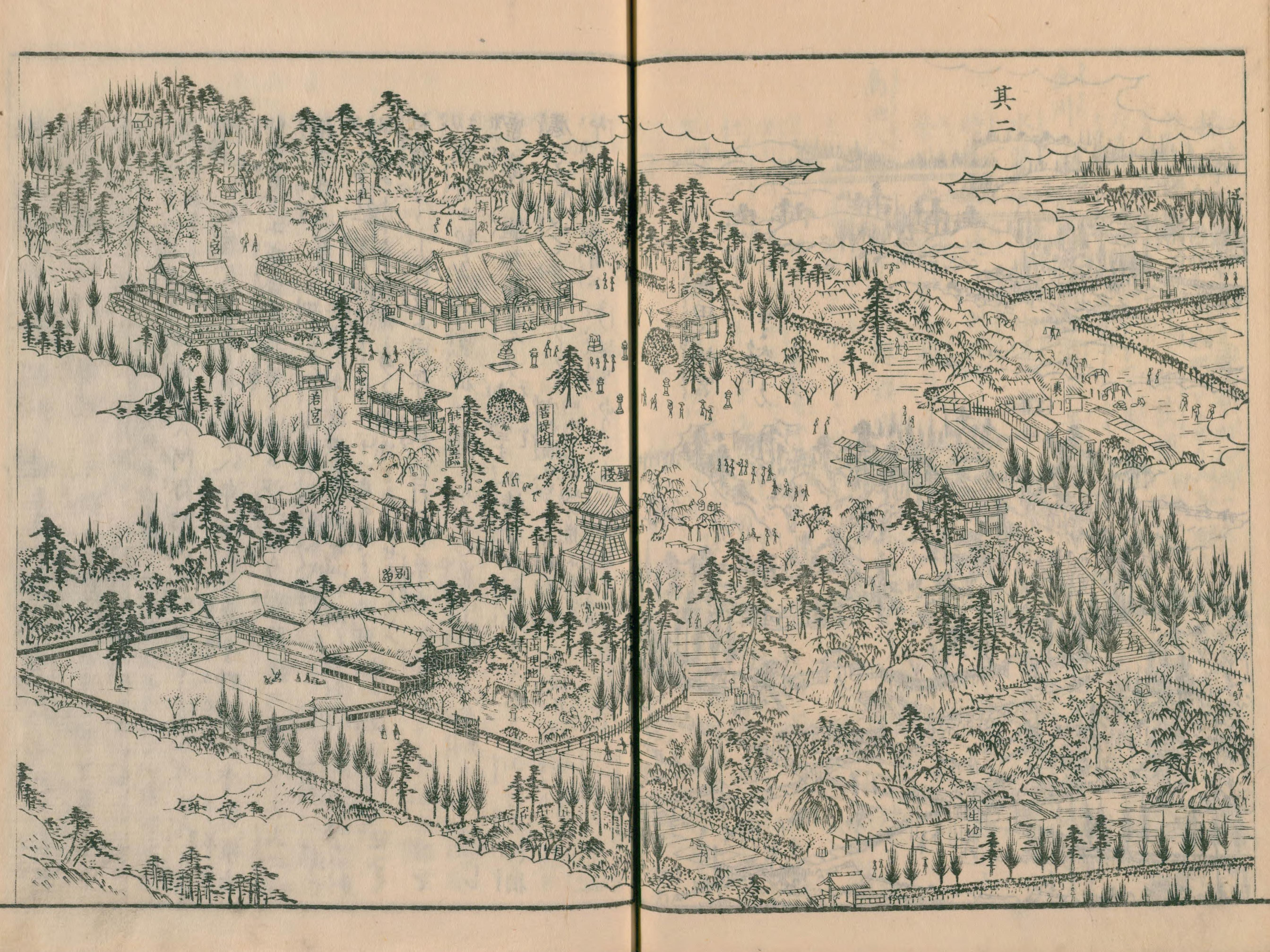 Takata Hachimangū shrine in Edo Meisho Zue vol. 4 (book 11)